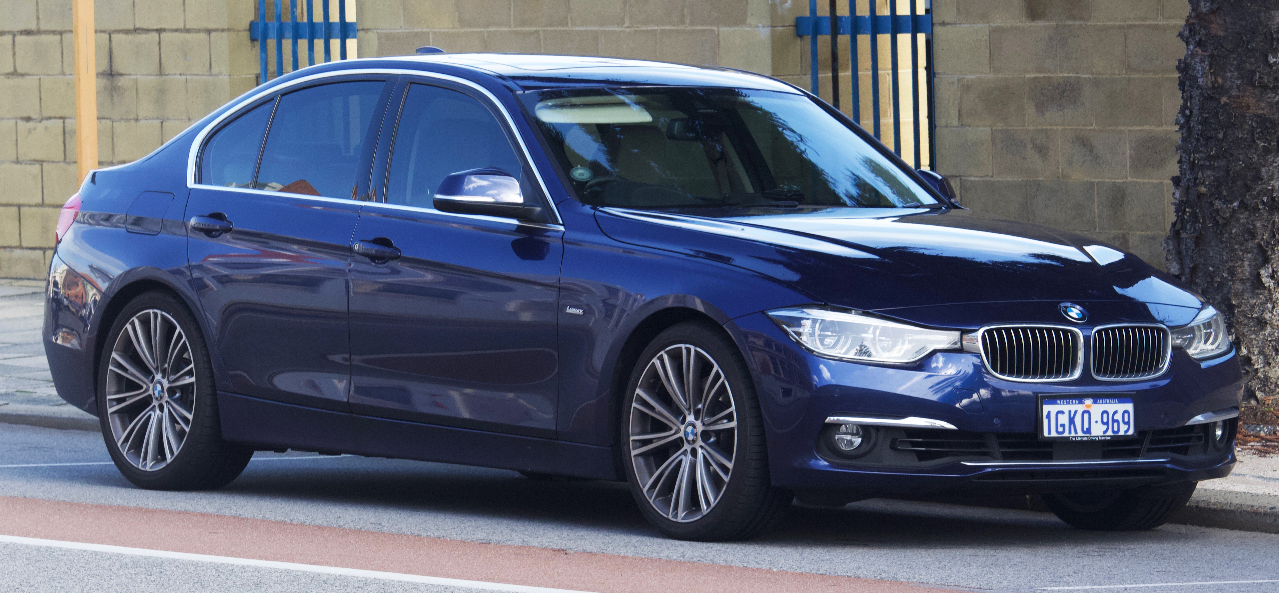 2017 BMW 340i (F30 LCI) Luxury Line sedan. Photographed in Fremantle, Western Australia, Australia. Note: I took this photo of the exact same car back in February. Its always in Fremantle. I believe someone may be living in one of the apartments.